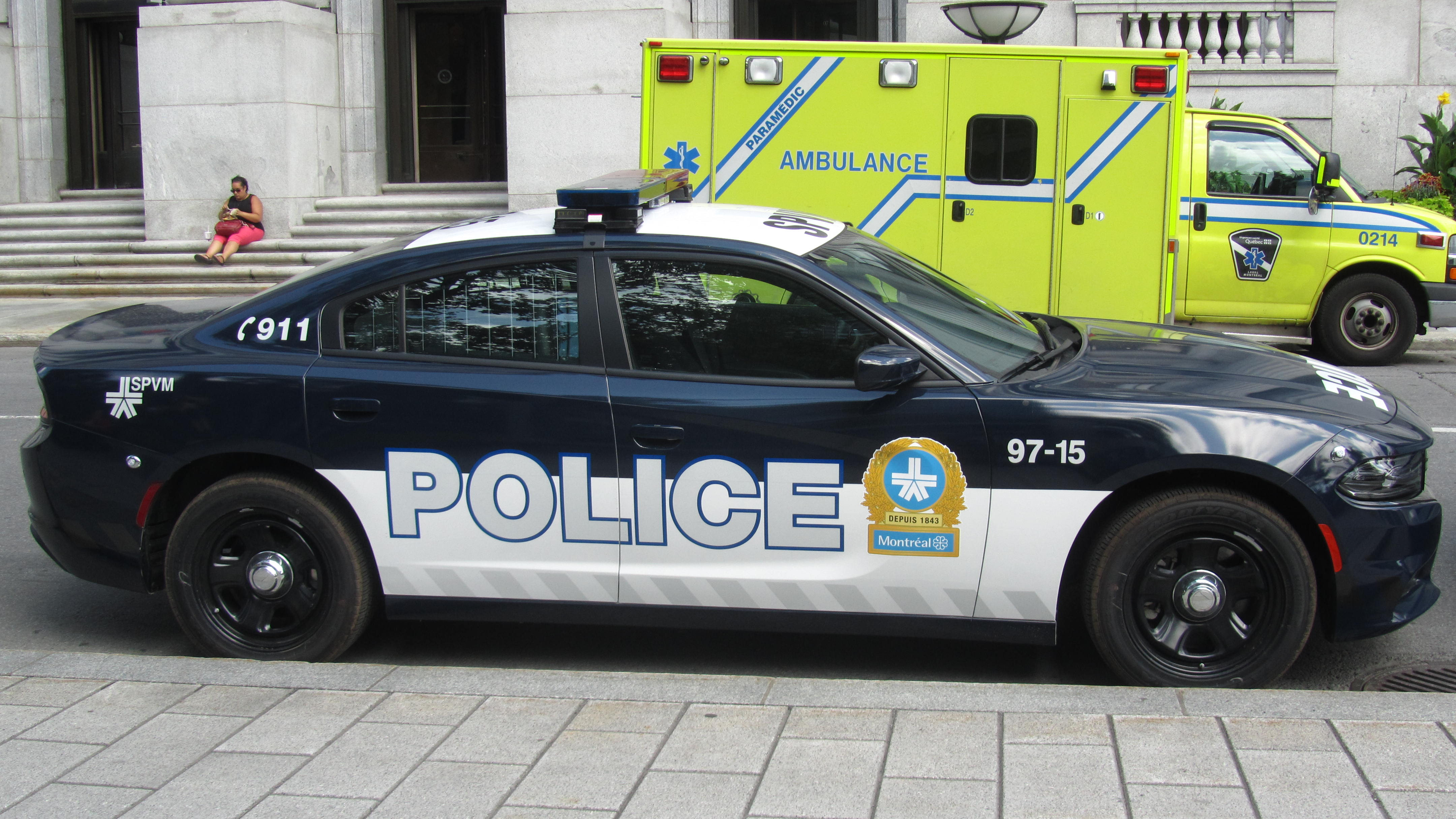 This photo of the new Montreal police Dodge Charger was taken on park Dorchester Square on the corner between Mansfield street and Boulevard René-Lévesque